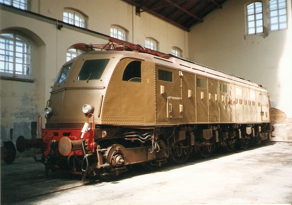 FS E.428.209 in Pietrarsa railway museum